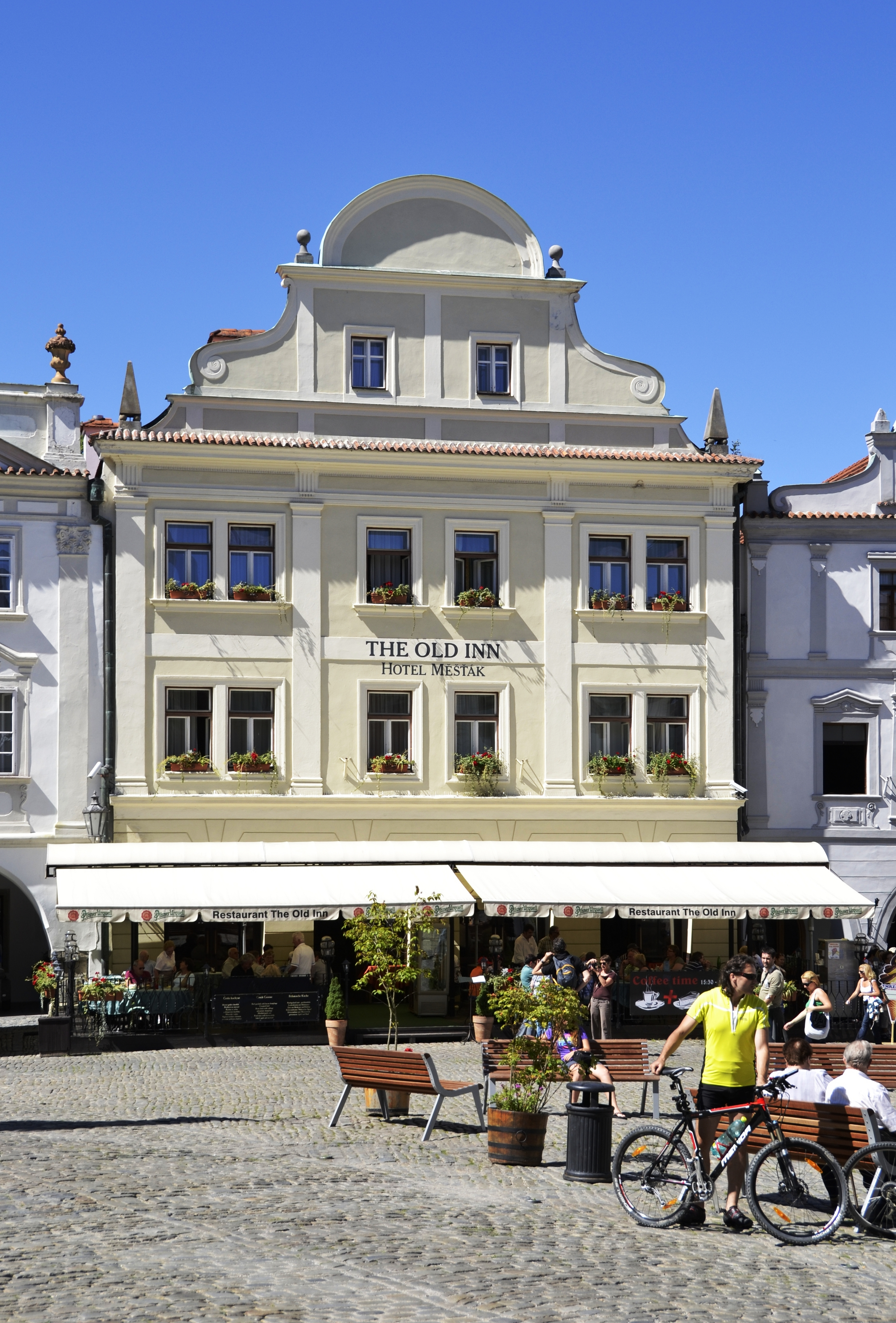 The Hotel The Old Inn - Hotel Měšťák in Krumlov, Czech Republic.